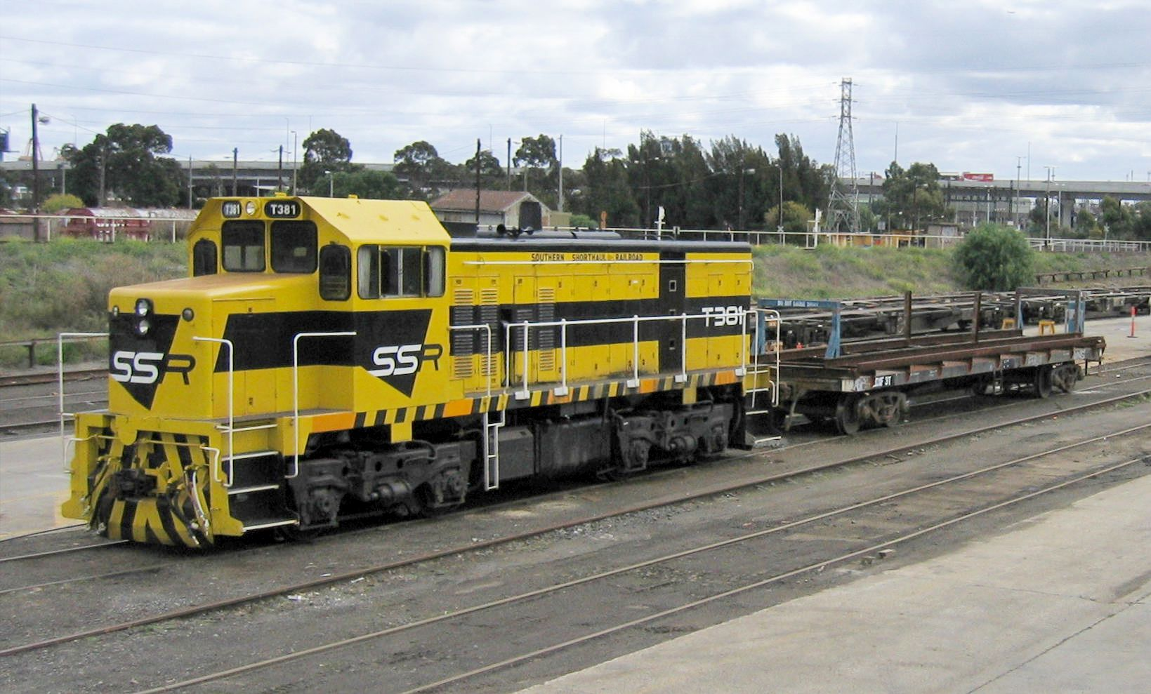 "Southern Shorthaul Railroad" locomotive T381 - Melbourne, Victoria, Australia